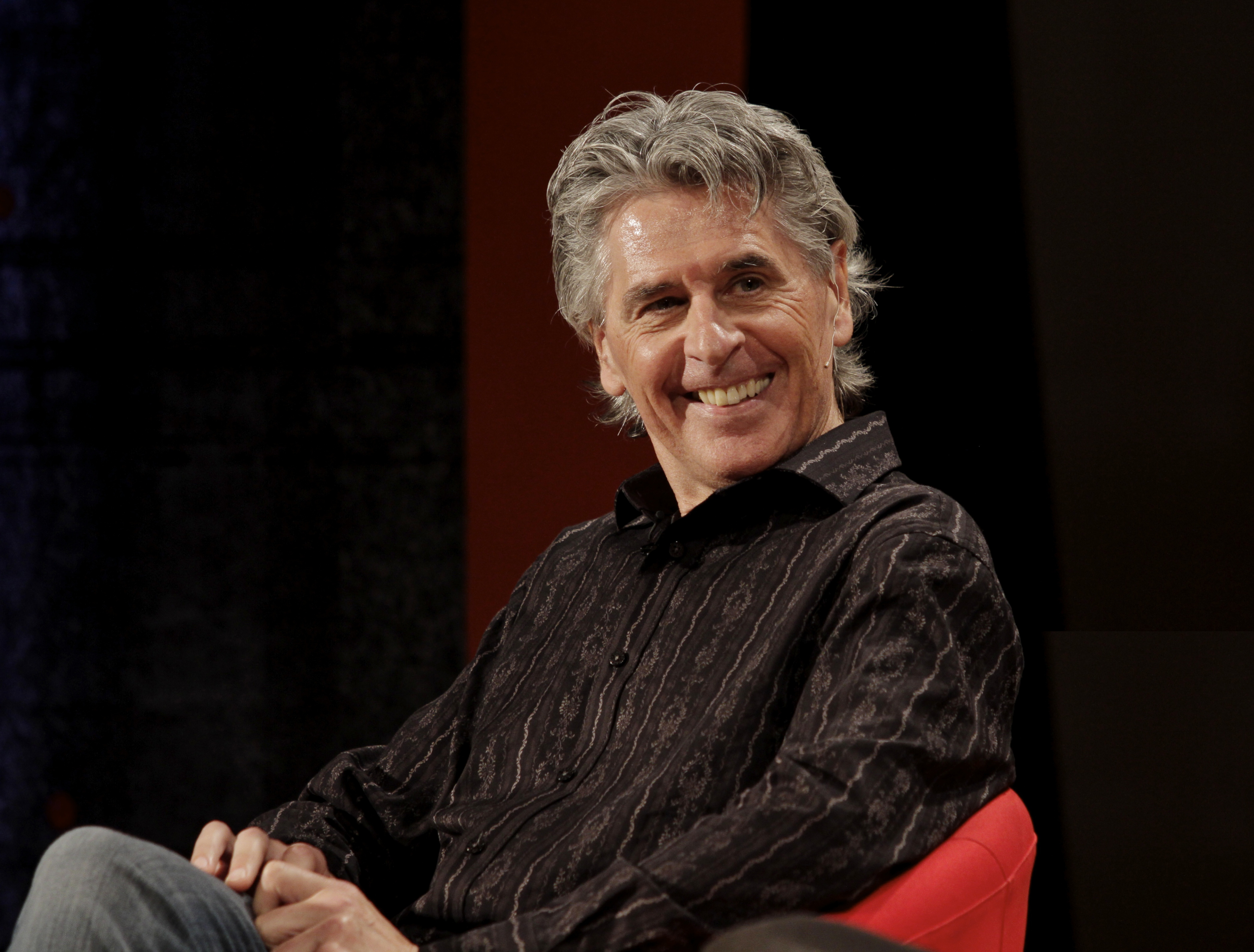 Keith Devlin in World Science Festival